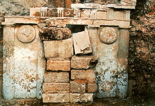 Войводинската гробница, антично македонско погребално съоръжение от II век пр. Хр., открито край кайлярското село Войводина (Спилеа), Гърция.